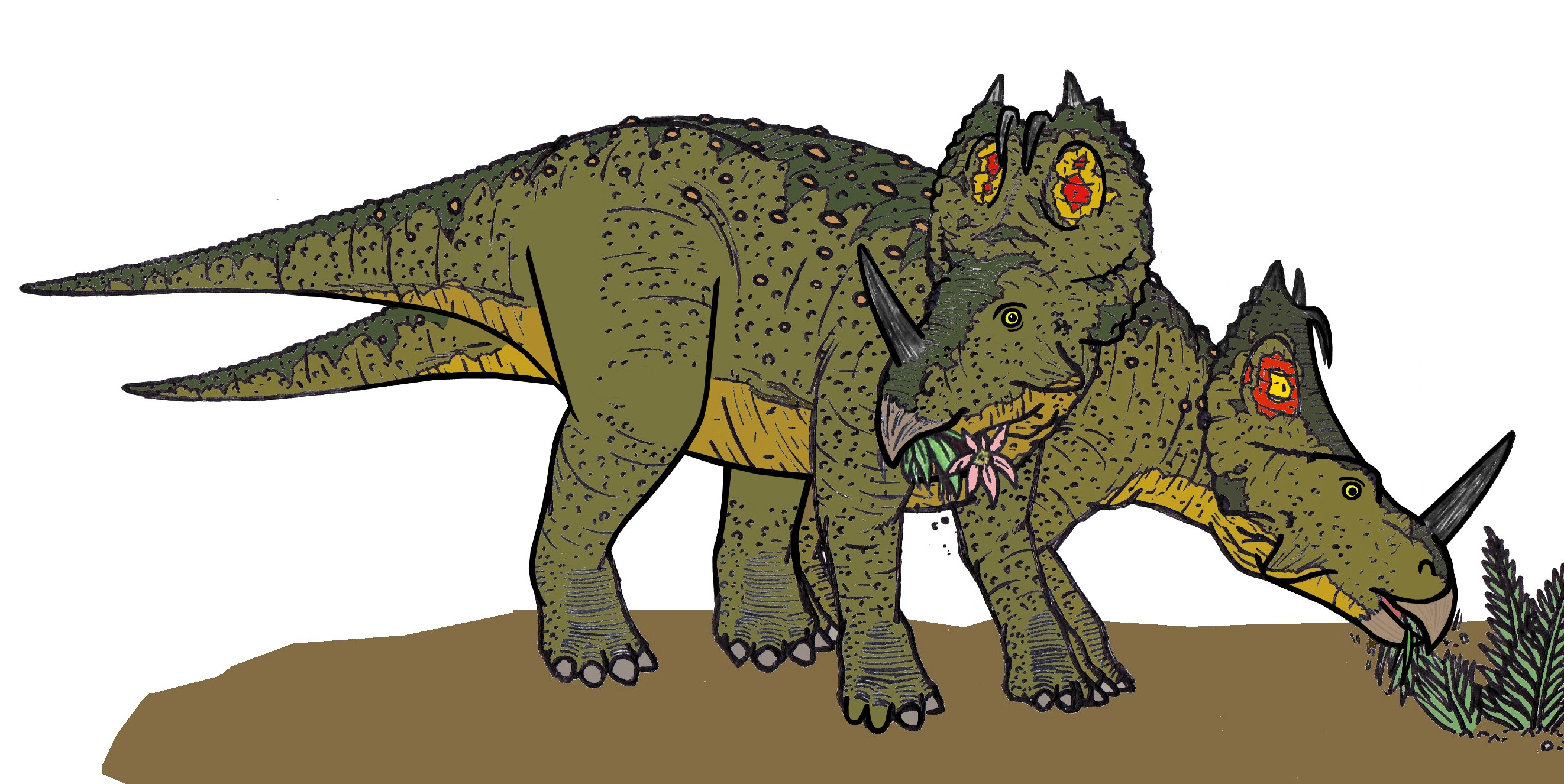 Illustration of the ceratopsid dinosaur Monoclonius.